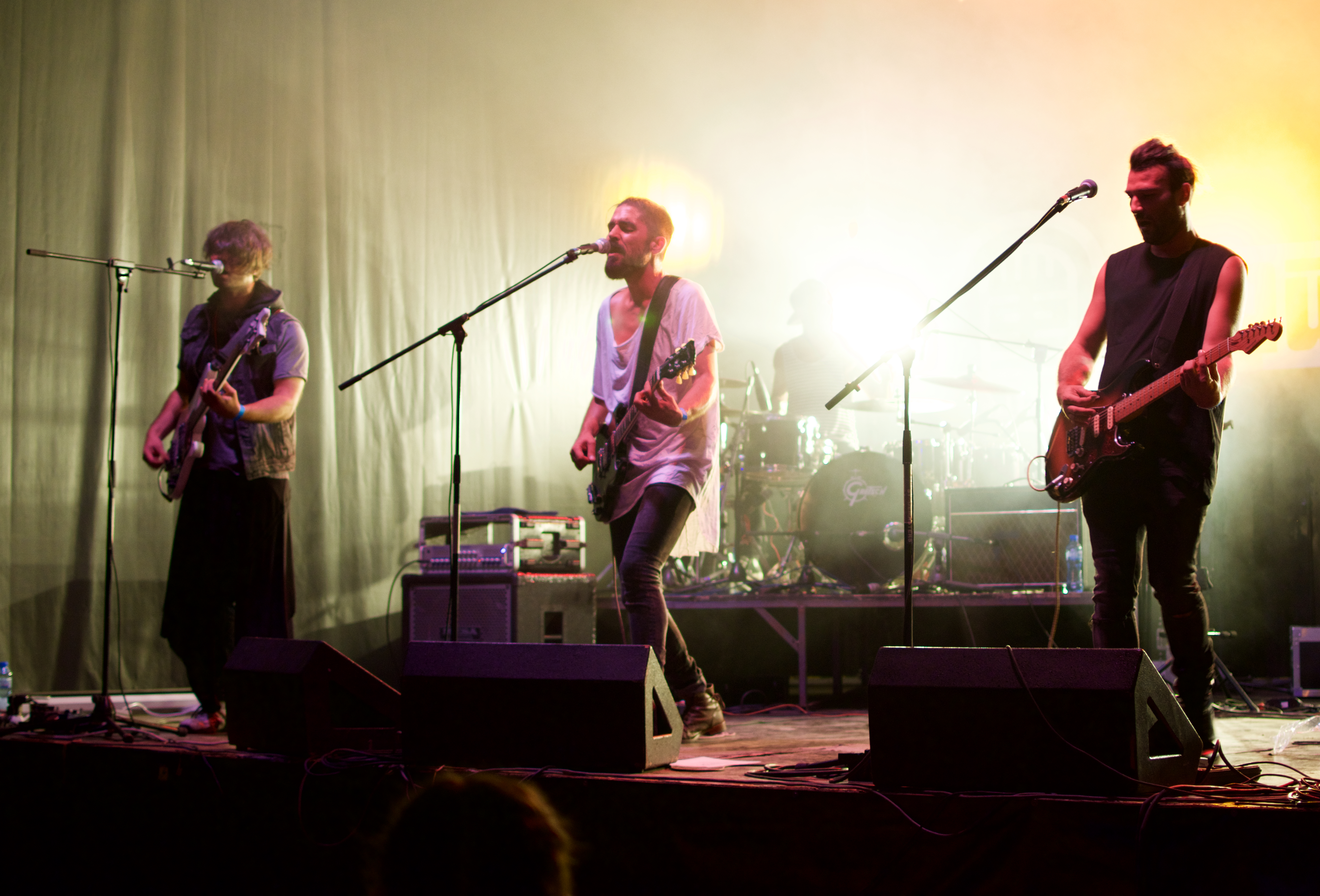 The Bulgarian band "Jeremy?"